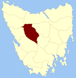 Location of the land district (formerly county) within Tasmania.